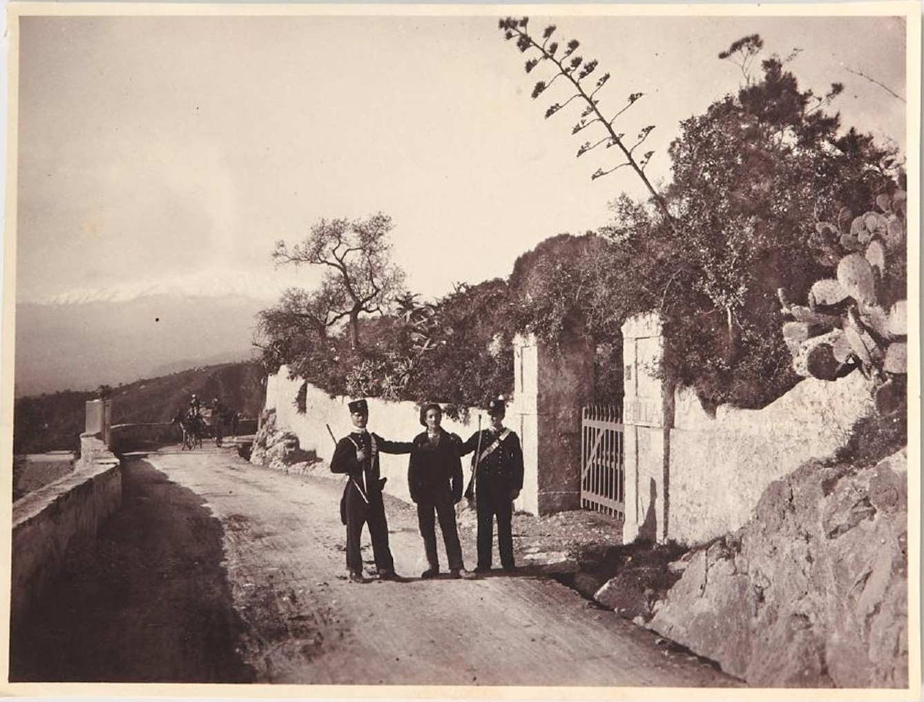 Wilhelm von Gloeden (1856-1931), Sketch showing two Carabinieri and a prisoner along Via Pirandello street in Taormina. Catalogue number: 2606 A. This sketch has two versions, numbered 2606 A and 2606 B.